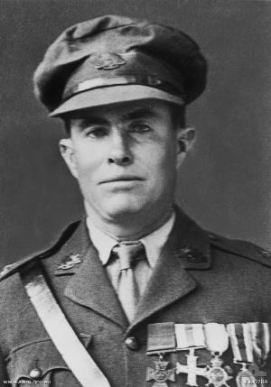 Studio portrait of Edgar Thomas Towner VC MC, an Australian recipient of the Victoria Cross during the First World War.